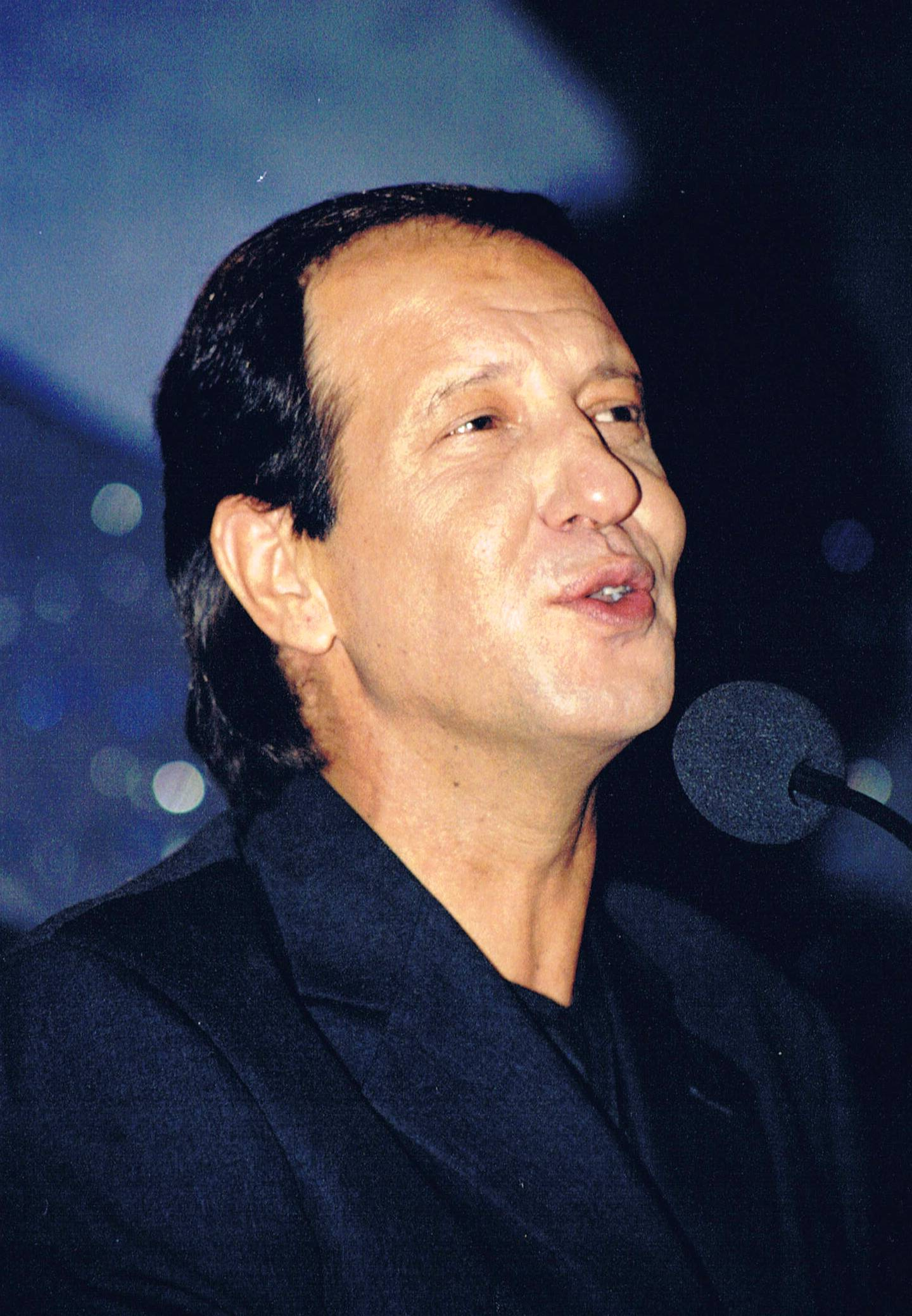 Yigael Bashan